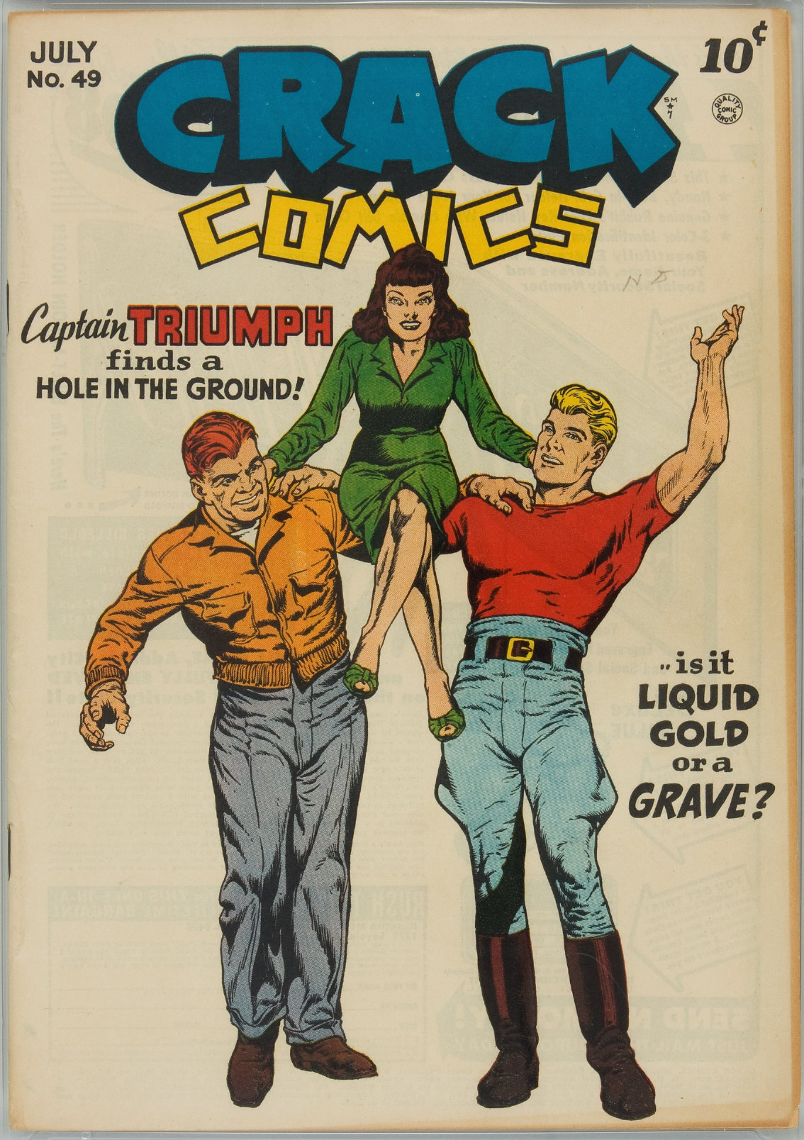 Cover to Crack Comics #49.